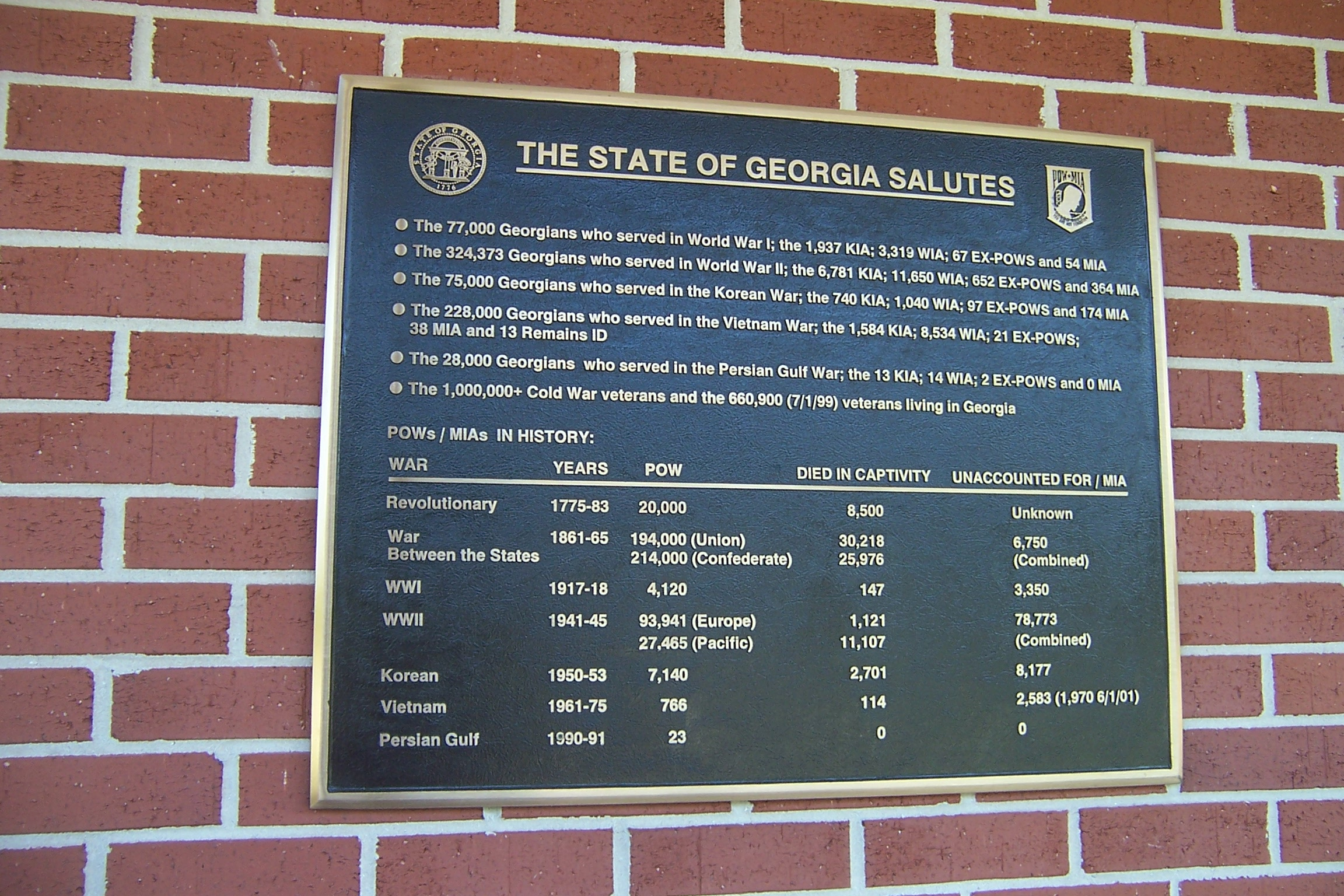 Plaque located at eastbound rest area of Interstate 20 getting near to Augusta, Georgia. Shows casualty figures of U.S. service people from Georgia from World War I onward and POW/MIA figures of U.S. service people from Revolutionary War onward.